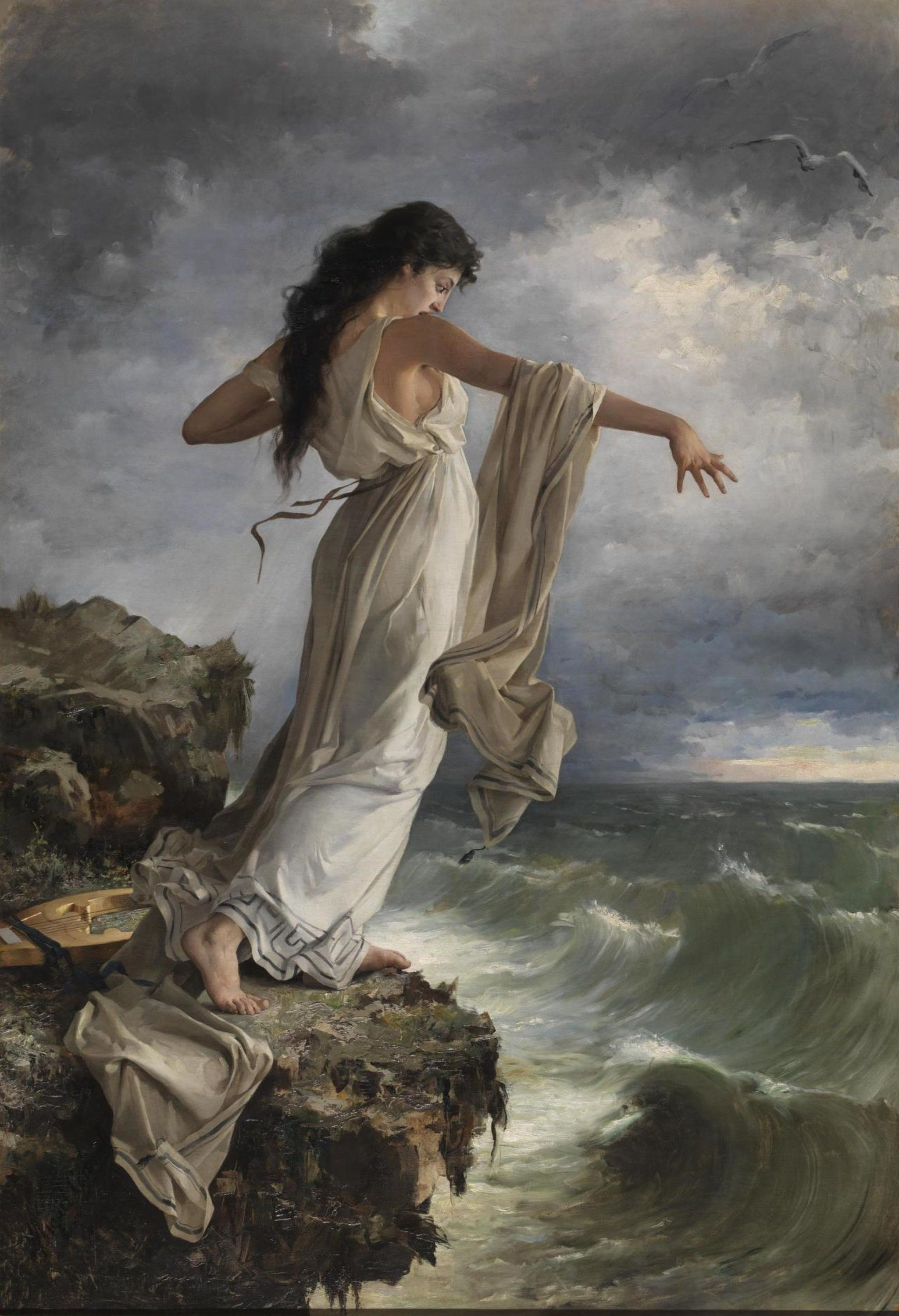 Death of Sappho